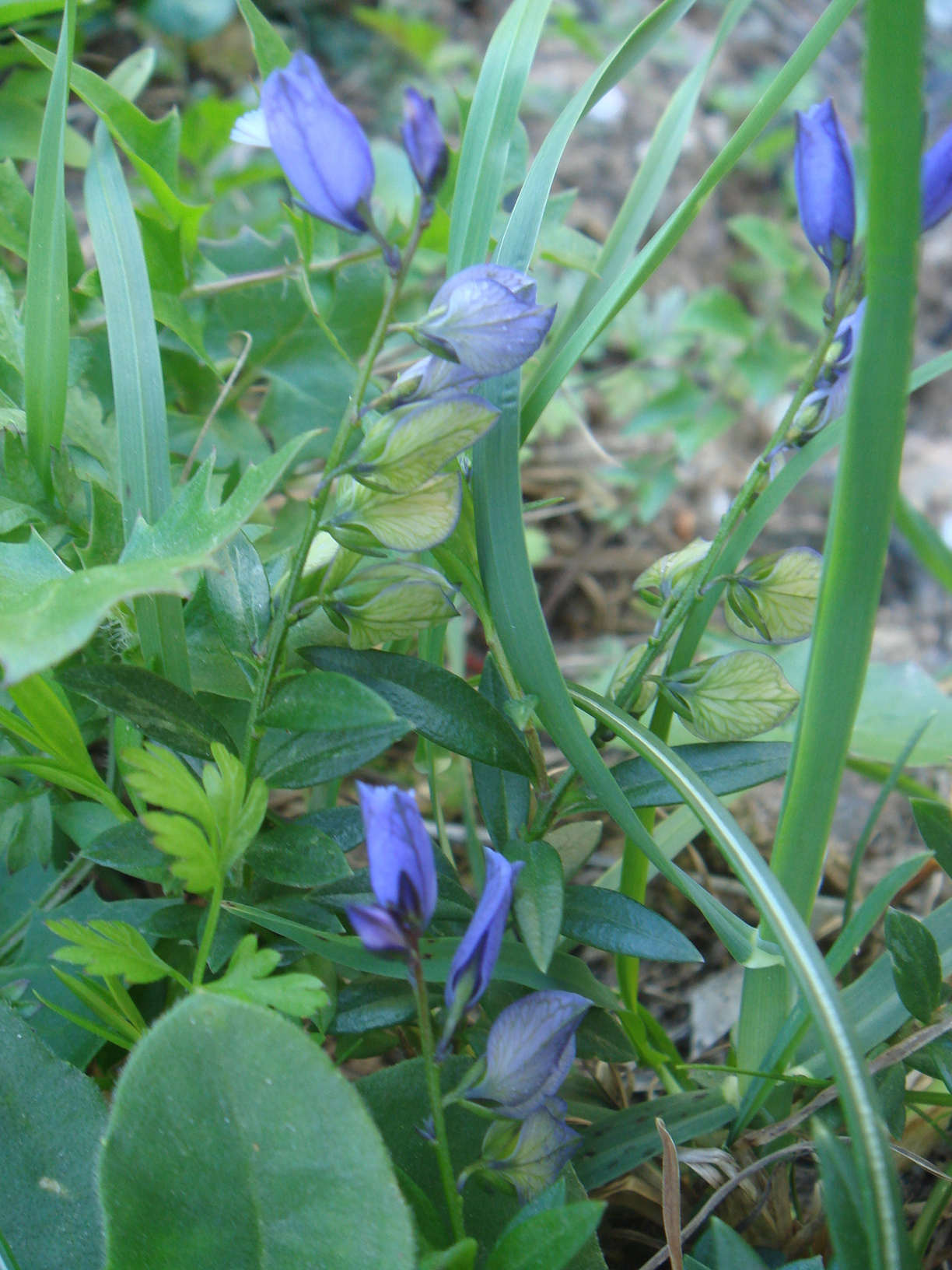 Milkwort